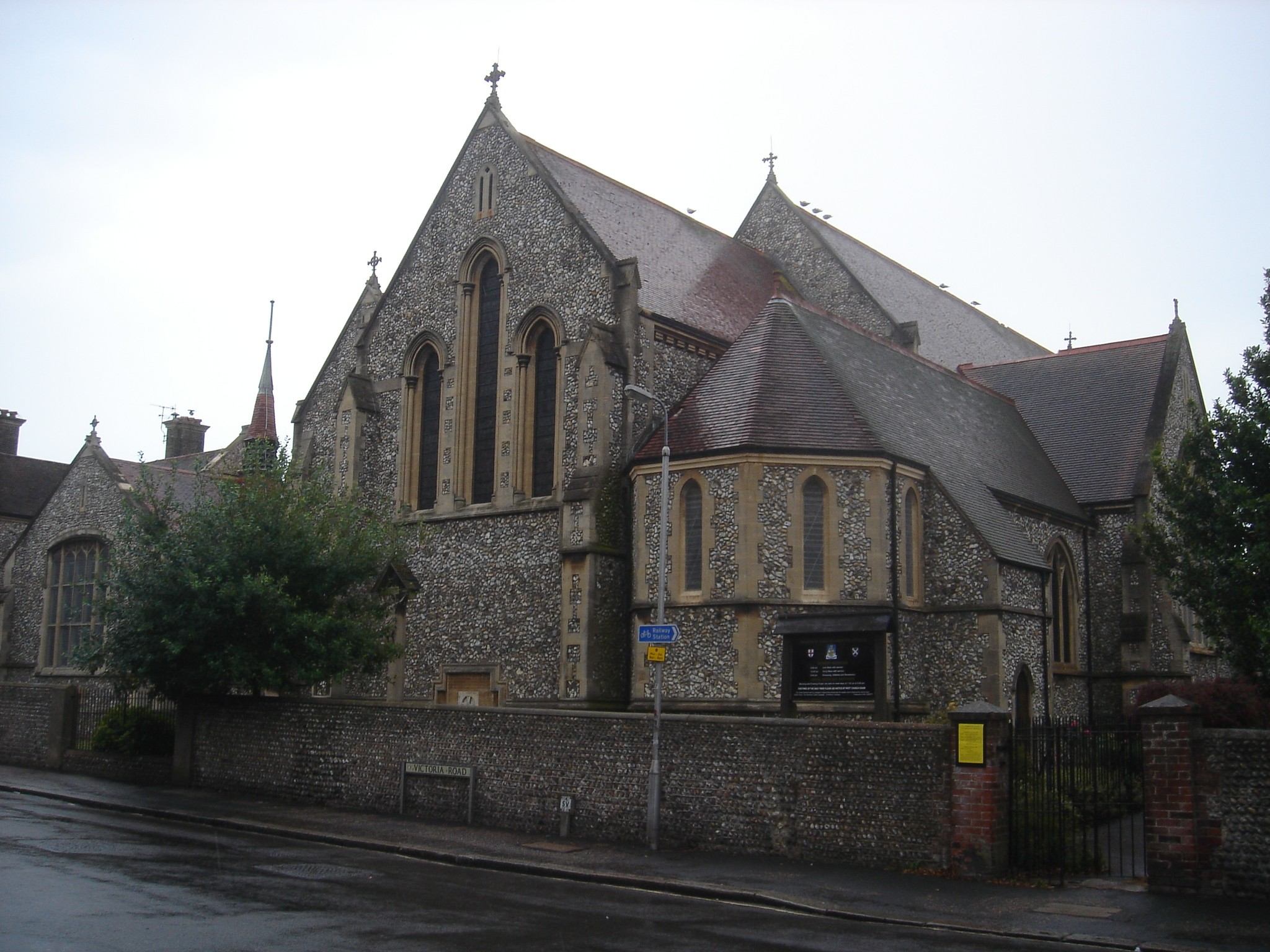 St Andrew the Apostle parish church, Clifton Road, Worthing, West Sussex, seen from the northeast from Victoria Road